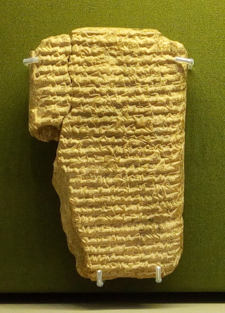 Copy of the "Zakûtu Treaty", 669 BC, loyalty oath (adê) made at the initiative of the queen dowager Zakûtu (Naqi'a) in order to insure that the Assyrians are going to be loyals towards her grandson Ashurbanipal, when he becomes king after the death of his father Assarhaddon. Excavated in Nineveh. 1883, 0118.045.